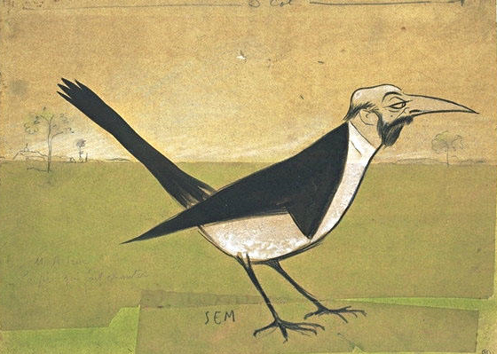 Caricature of Gabriel Astruc. Musée du Louvre Inv. RF 40174, recto